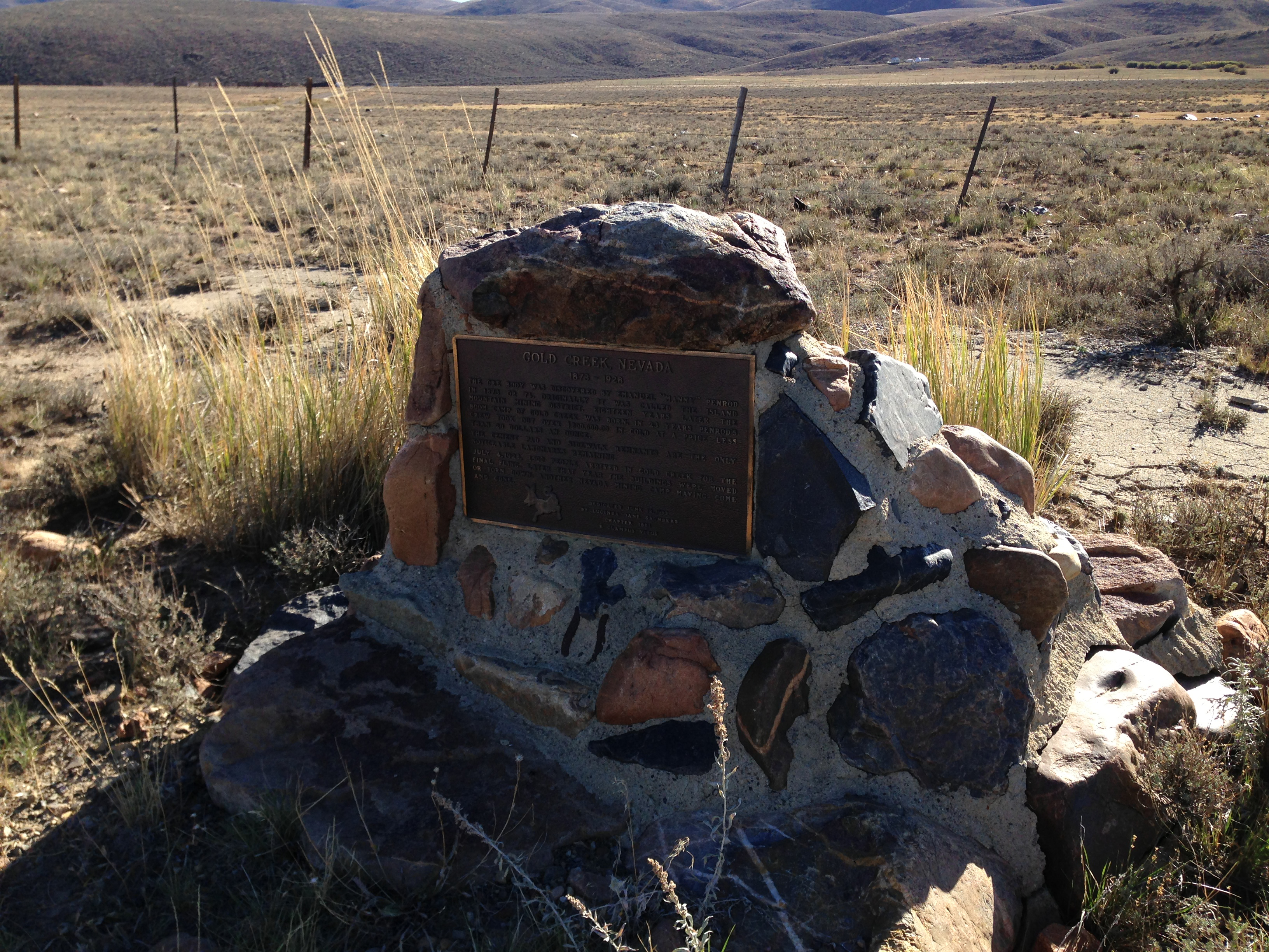 Historical plaque about Gold Creek, Nevada along Gold Creek Road (Elko County Route 749) about 5.9 miles north of Nevada State Route 225 (Mountain City Highway)